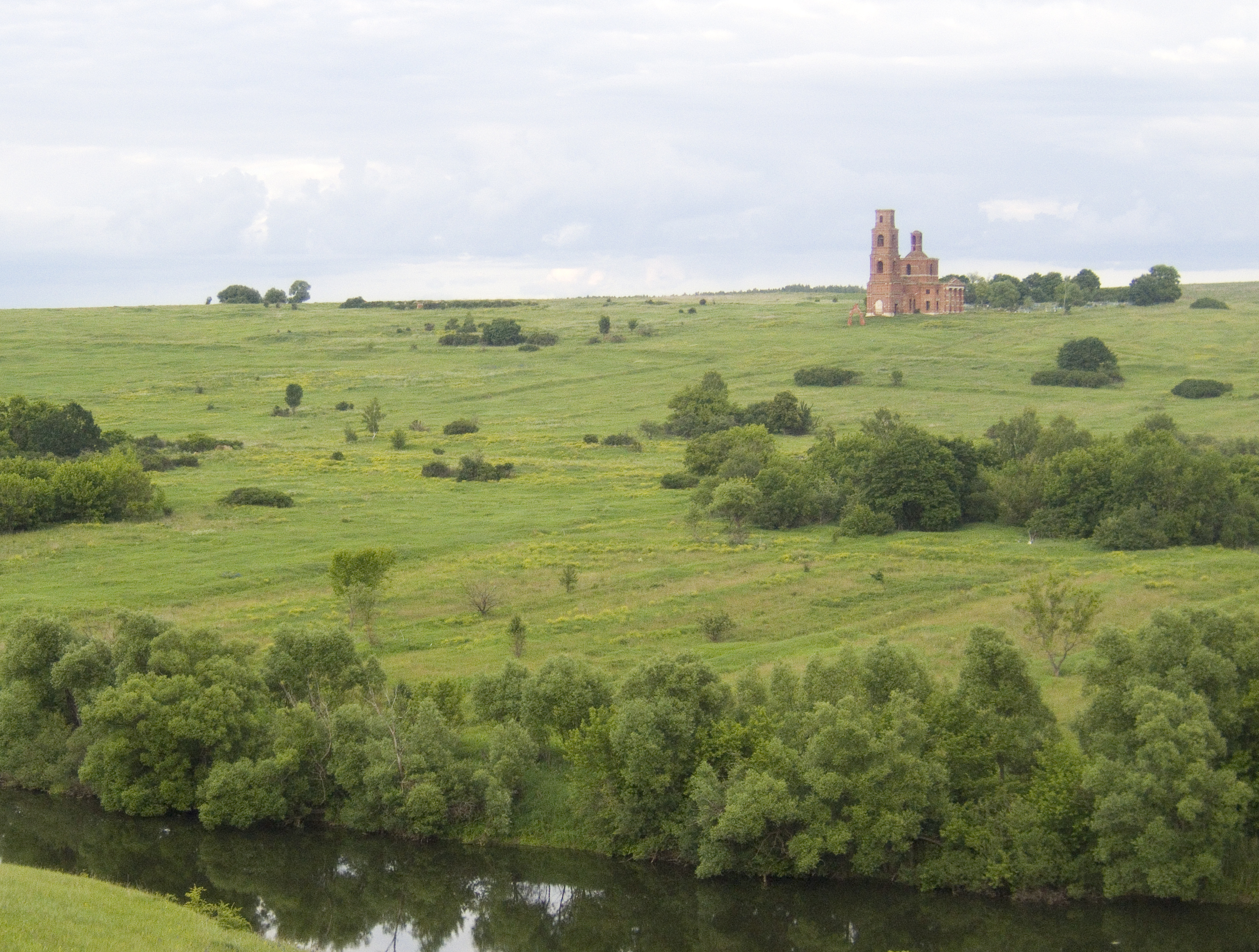 Near Polibino, the 18th century church in Streshnevo seen across the Don River